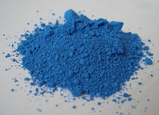 Pigment Blue 28 picture